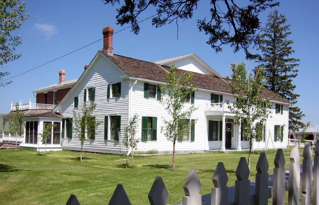 The Ranchhouse at the Grant-Kohrs Ranch National Historic Site, Montana, USA.